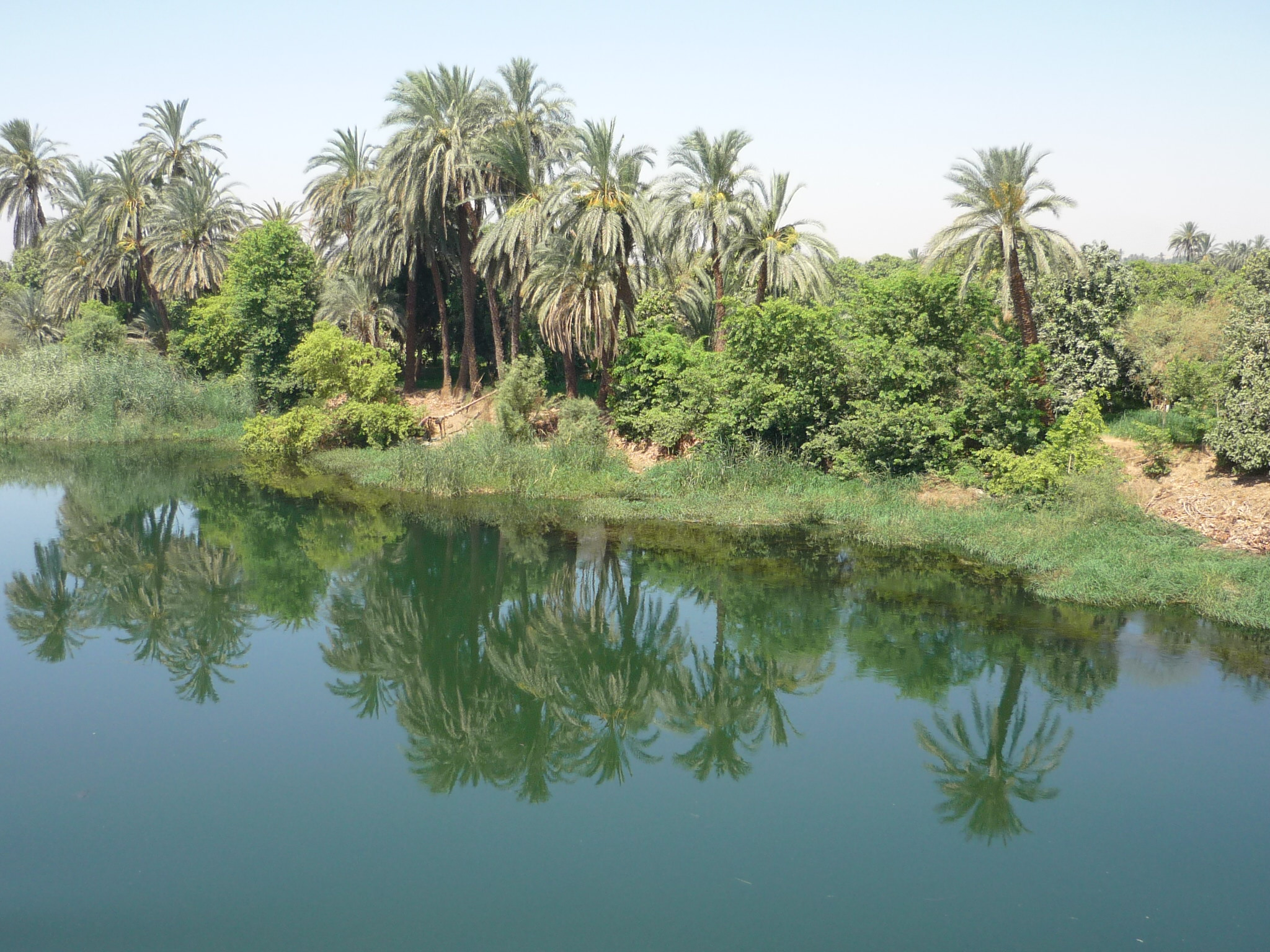 Date Palm trees and Nile between Edfu and Kom Ombo, Aswan Governorate, Egypt